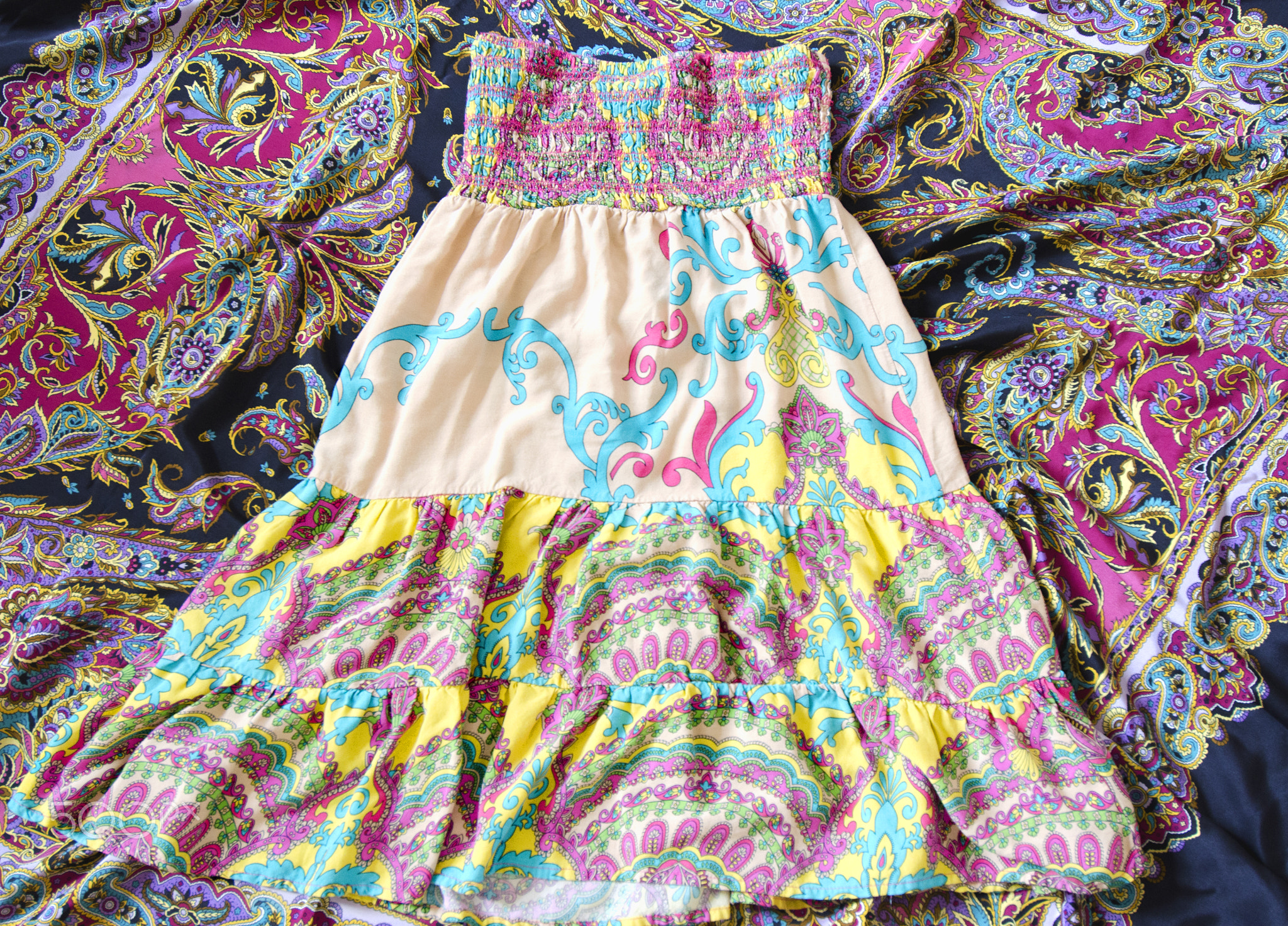 500px provided description: Hippie stiyle [#girl ,#beauty ,#color ,#blue ,#vintage ,#abstract ,#background ,#beautiful ,#design ,#pattern ,#texture ,#fashion ,#style ,#art ,#green ,#fabric ,#indoor ,#scarf ,#decoration ,#cotton ,#handmade ,#wool ,#wear ,#textile ,#desktop]